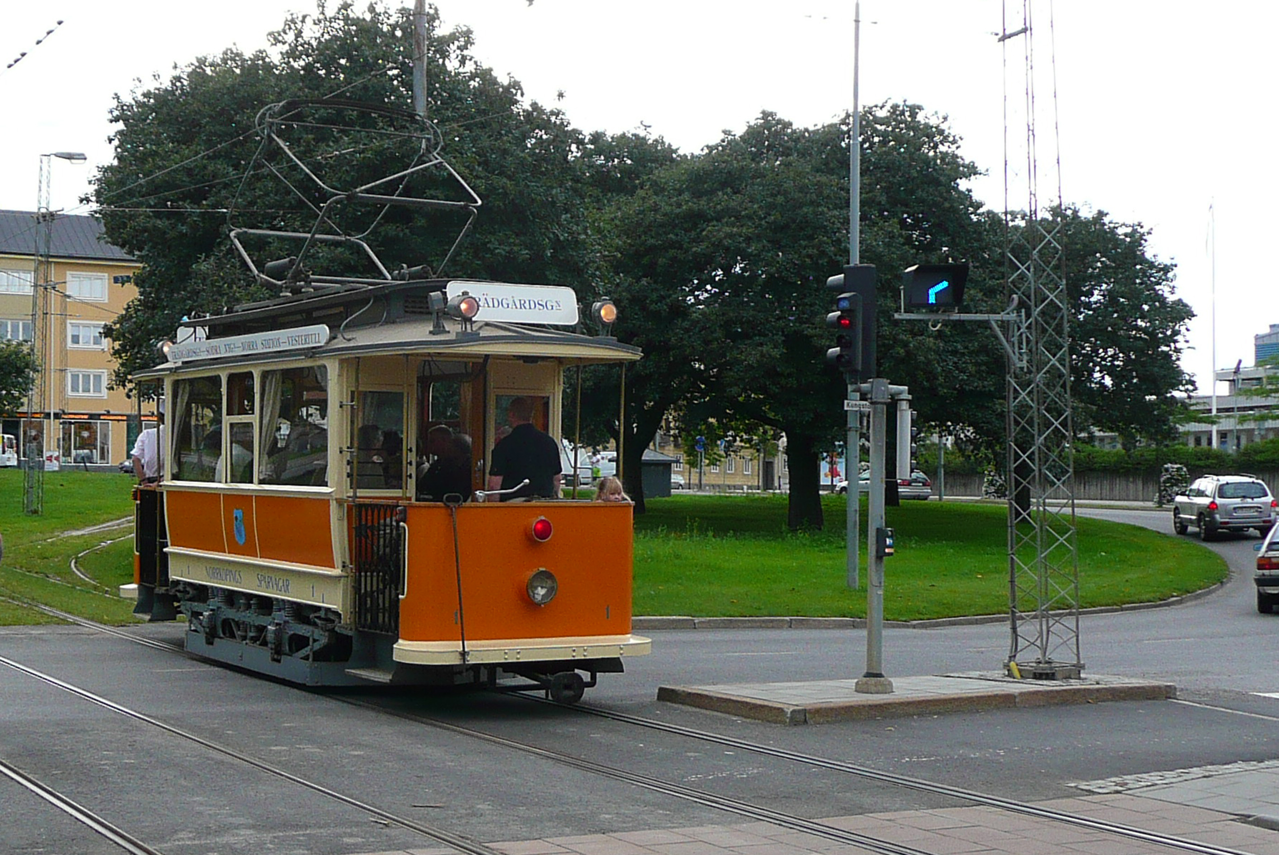 Historical tramway No. 1 in Norrköping (Sweden)